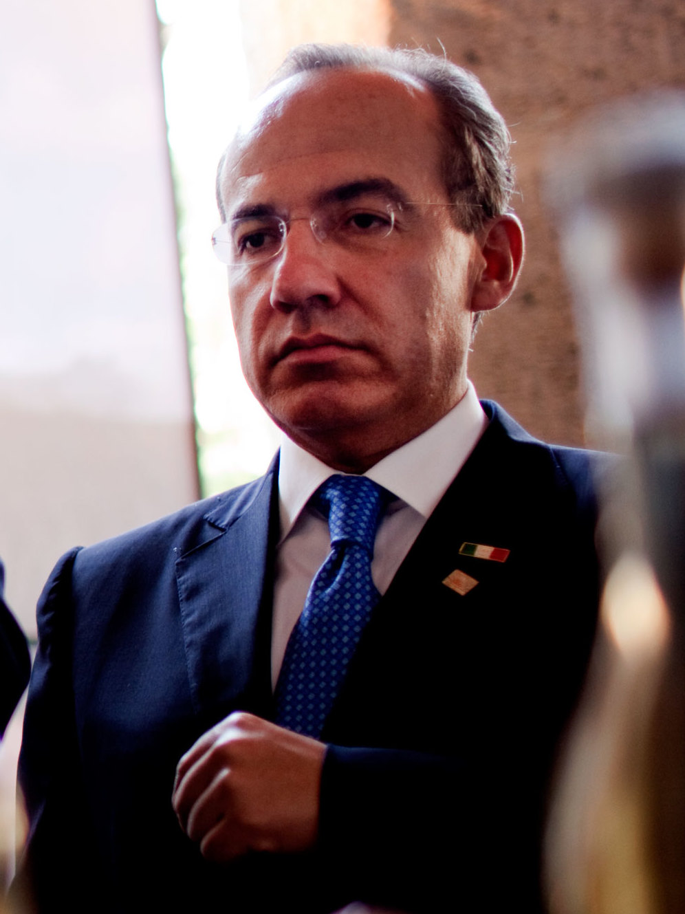 President Barack Obama and Mexico's President Felipe Calderon, right, are shown a display on the making of tequila at the Cabanas Cultural Center in Guadalajara, Mexico, on Aug. 10, 2009. (Official White House Photo by Pete Souza)